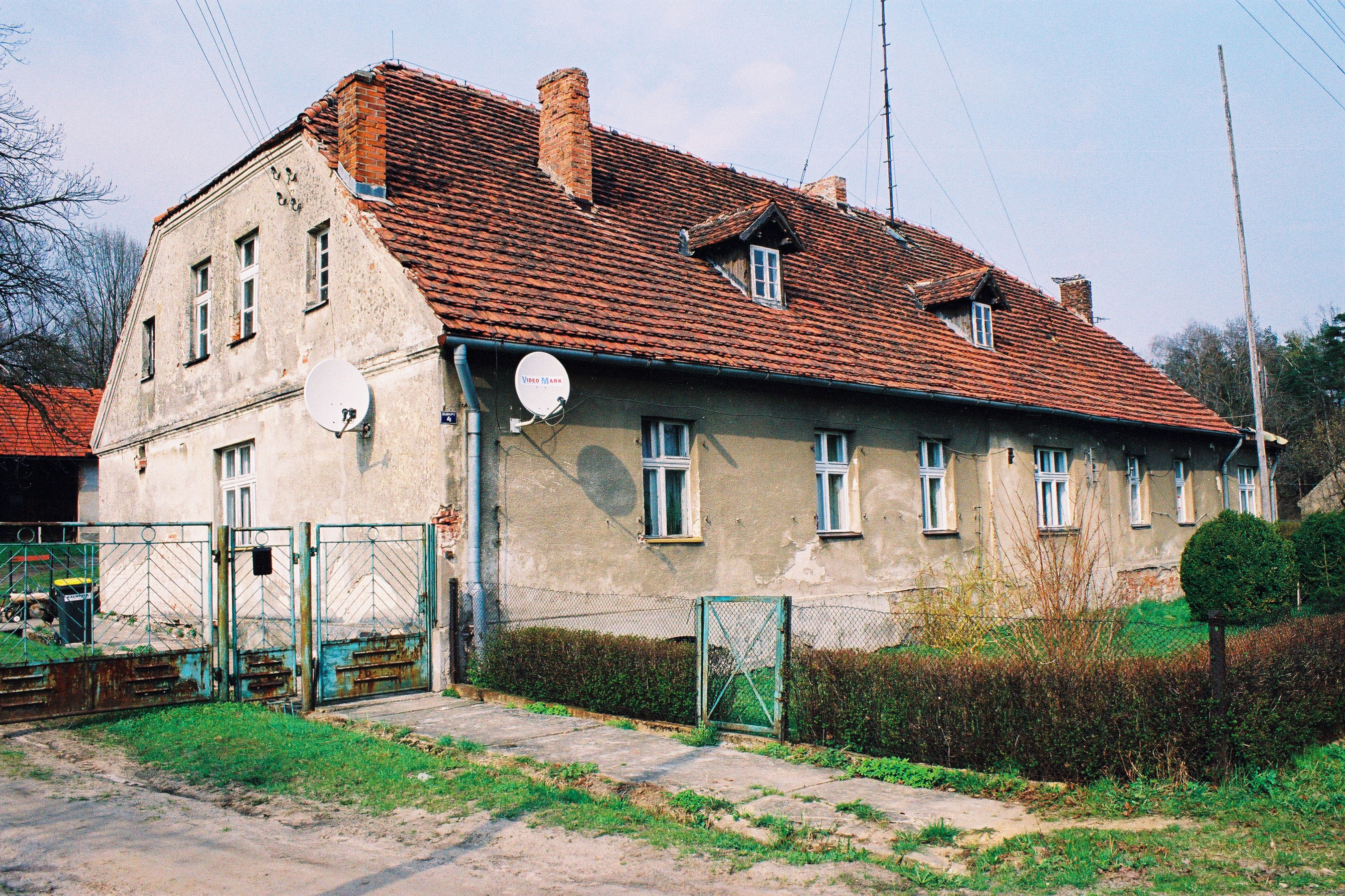 Zumpy - village in Gmina Boronów, Poland, old forest inspectorates building Author: Przykuta 22:27, 26 April 2006 (UTC) Date: April 2006